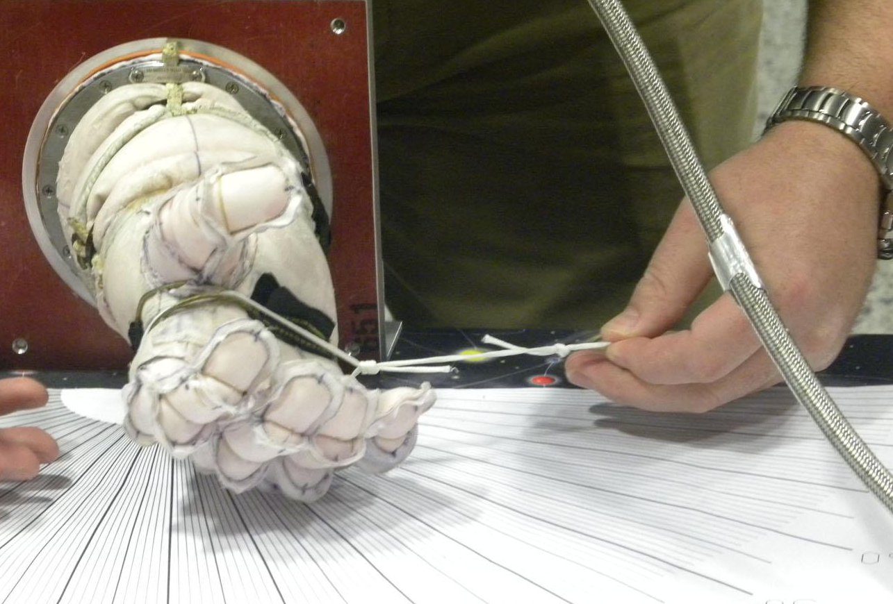 Torque test being performed on the glove designed by Ted Southern.